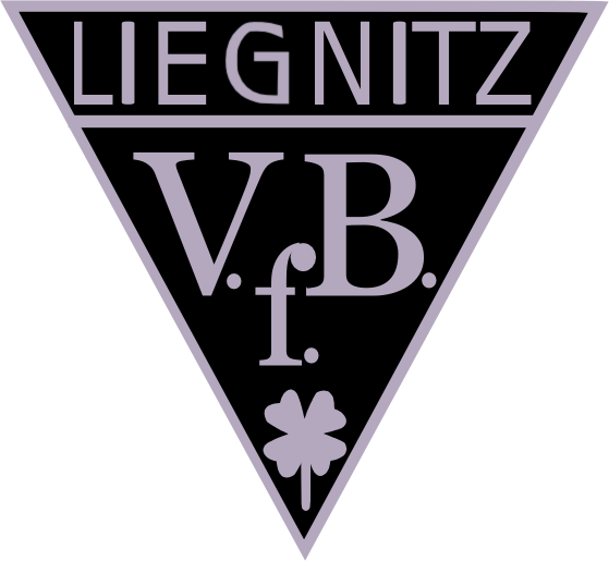 Logo of VfB Liegnitz, German football team.